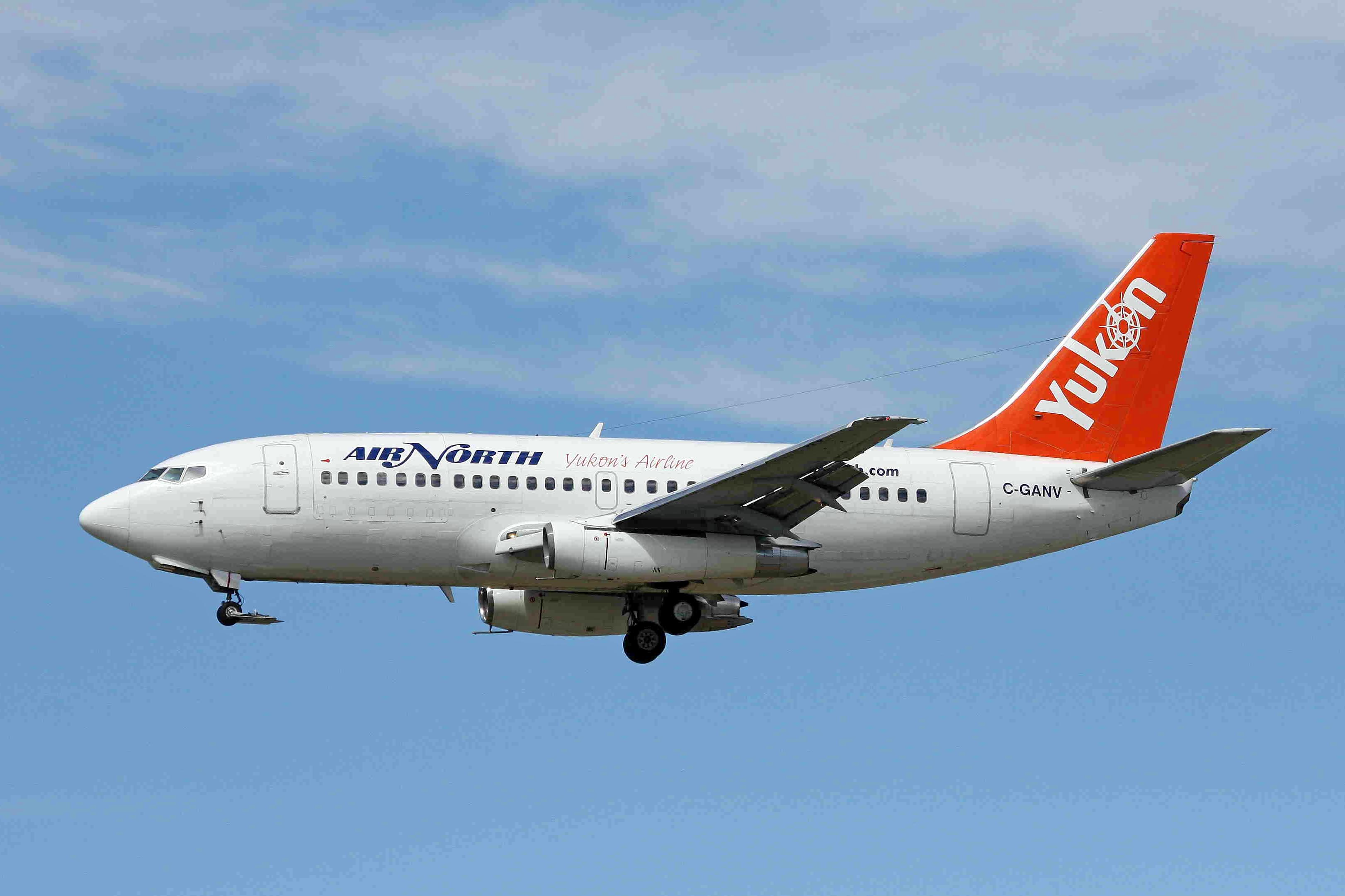 Air North with a gravel deflector on the nosewheel